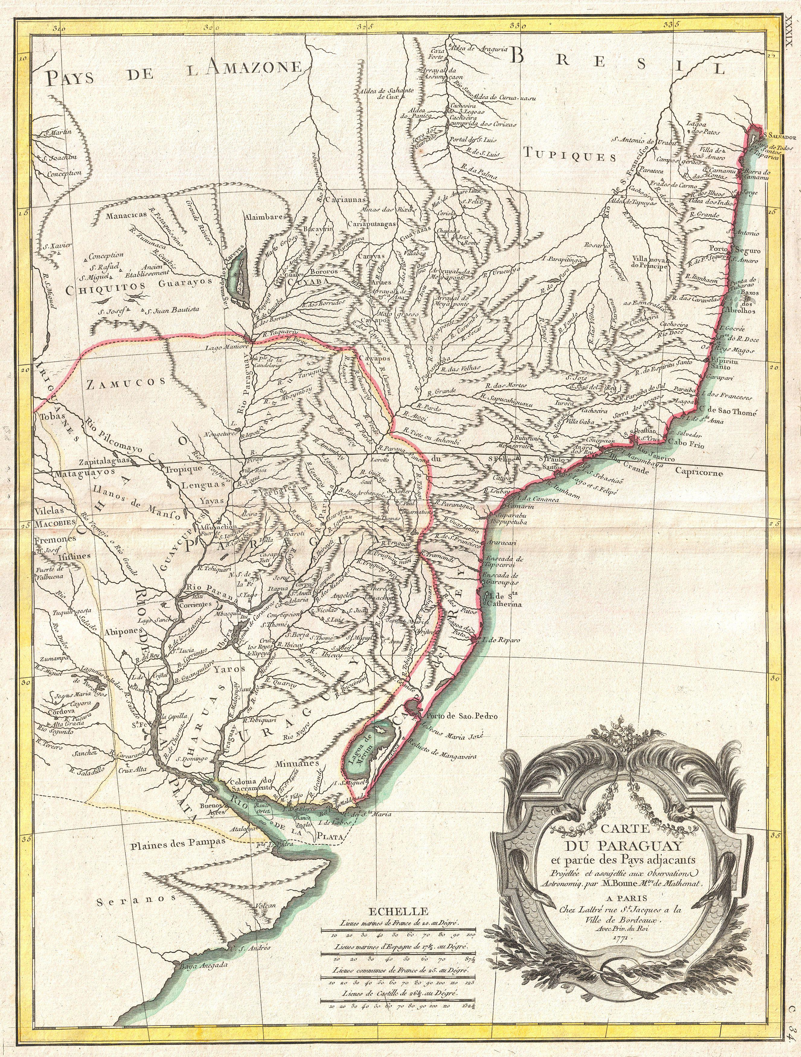 A beautiful example of Rigobert Bonne's decorative map of Paraguay. Covers from the Rio de la Plata north well into Brazil and the Amazon, extends westward as far as Cordova, and eastward to San Salvador, Brazil. Includes the modern day nations of Uruguay, Paraguay, and parts of adjacent Brazil and Argentina. Offers excellent detail throughout showing mountains, rivers, national boundaries, cities, regions, and tribes. Identifies Buenos Aires, Rio de Janiero, and numerous other important South American cities. Perhaps it most interesting element, this map offers a classic representation of the apocryphal Lake of Xarayes at the northern terminus of the Paraguay River. Xarayes is a corruption of Xaraiés meaning Masters of the River. The Xaraiés were an indigenous people occupying what are today parts of Brazil's Matte Grosso and the Pantanal. When Spanish and Portuguese explorers first navigated up the Paraguay River, as always in search of El Dorado, they encountered the vast Pantanal flood plain at the height of its annual inundation. Understandably misinterpreting the flood plain as a gigantic inland sea, they named it after the local inhabitants, the Xaraies. The Laguna de los Xarayes almost immediately began to appear on early maps of the region and, at the same time, almost immediately took on a legendary aspect as the gateway to El Dorado. A large decorative title cartouche appears in the lower right quadrant. Drawn by R. Bonne in 1771 for issue as plate no.